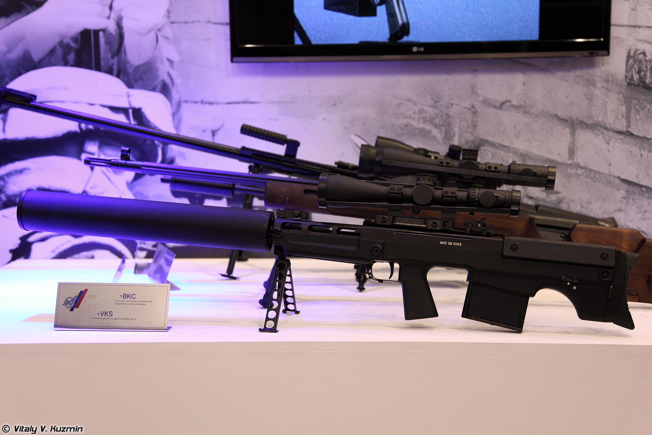 VKS sniper rifle